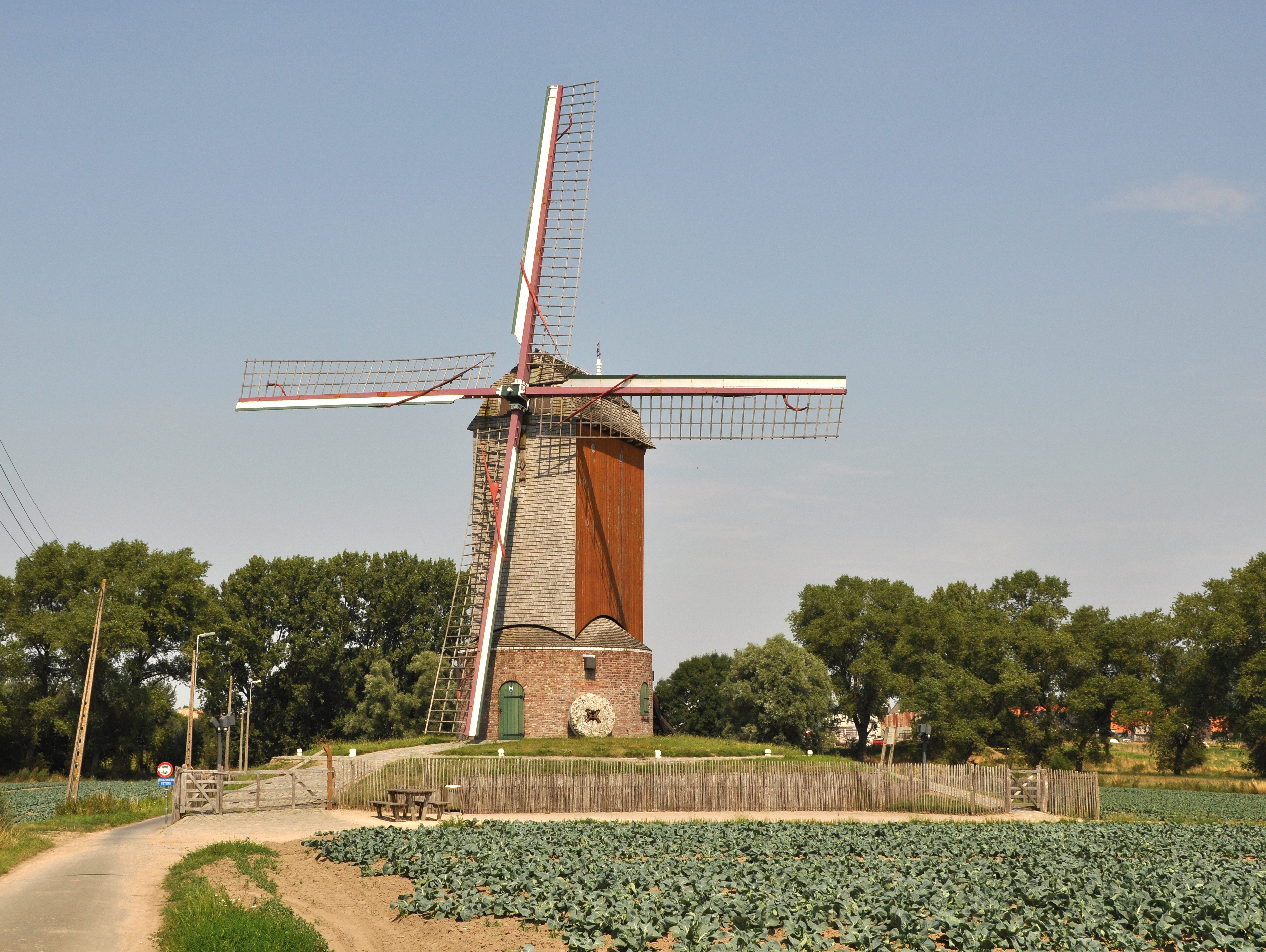 Zarren (Belgium): the Wullepit windmill, owned by the Province of West Flanders